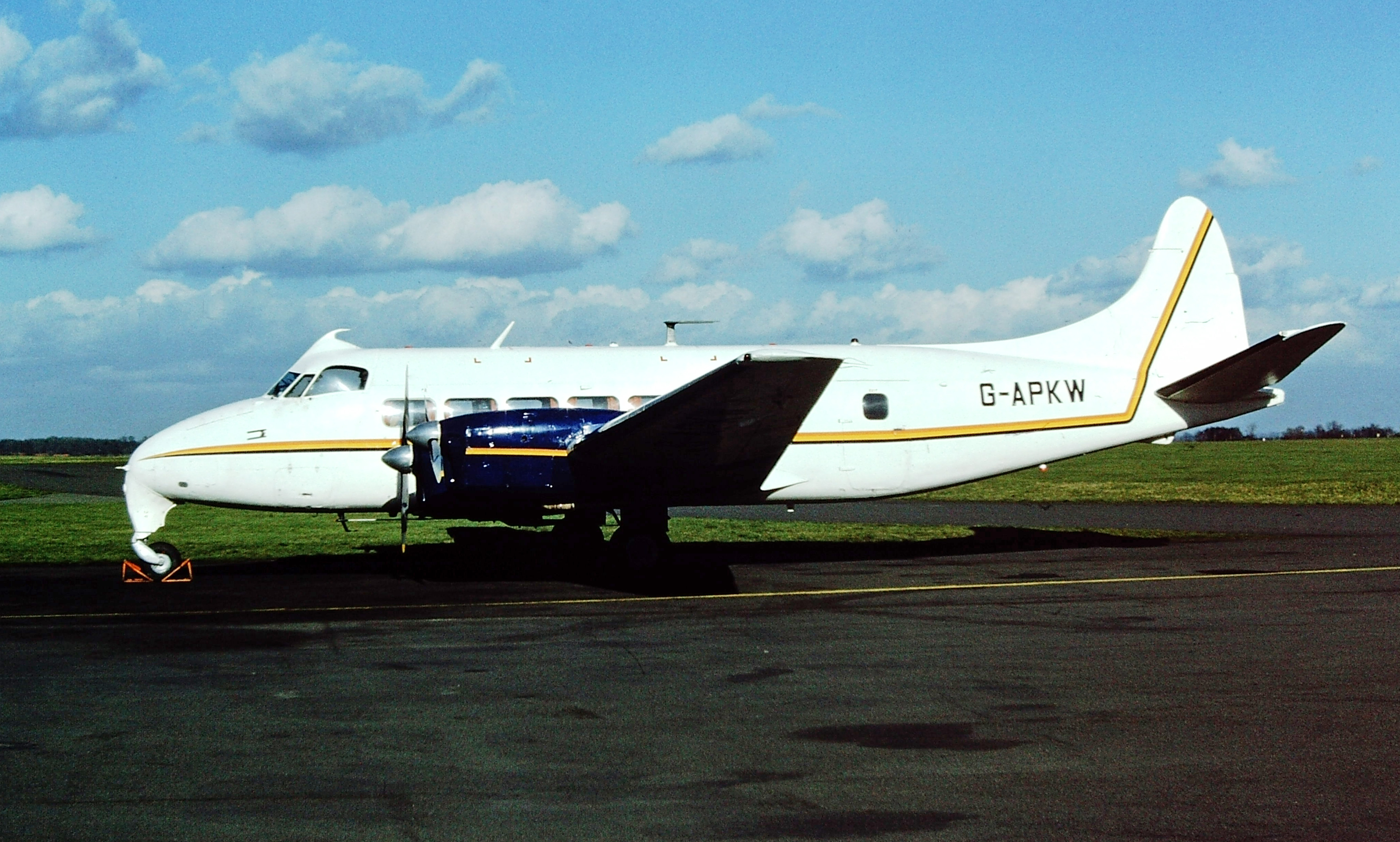 G-APKW De Havilland Heron DH114 Air Ecosse Fairflight Coventry Airport 21-03-1978